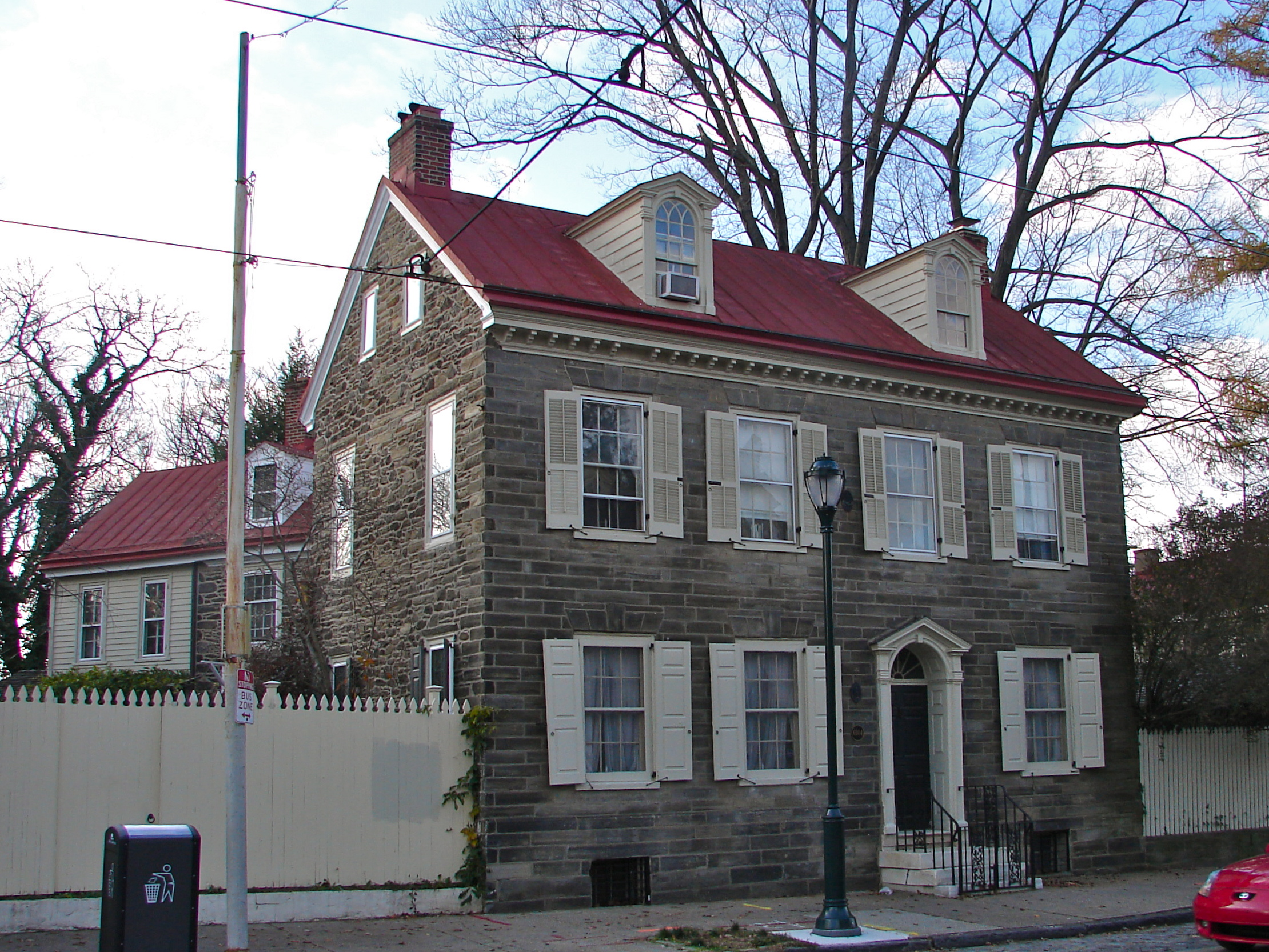 Daniel Billmeyer House, at 6504 Germantown Ave., Philadelphia, Pennsylvania. Coords 40.0484°N 75.1837°W. Built 1793 and listed separately on the NRHP. Stone with wood trim in the Federal style. Not to be confused with the Michael Billmeyer House in similar style right across the street and also on the NRHP.